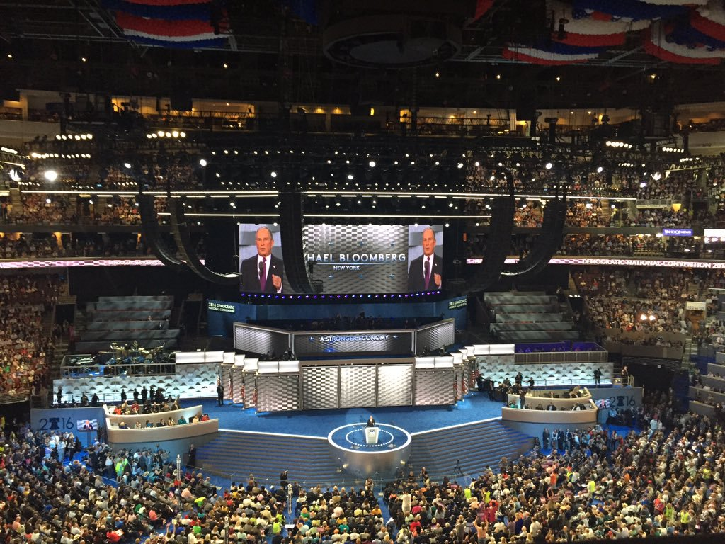 Michael Bloomberg 2016 DNC